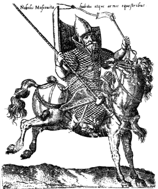 Muscovy cavalryman XVI century